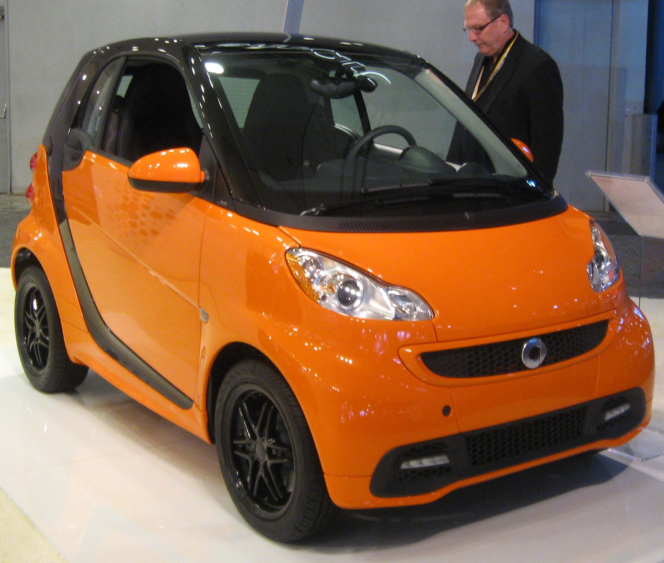 2013 Smart Fortwo photographed at the 2012 New York International Auto Show.